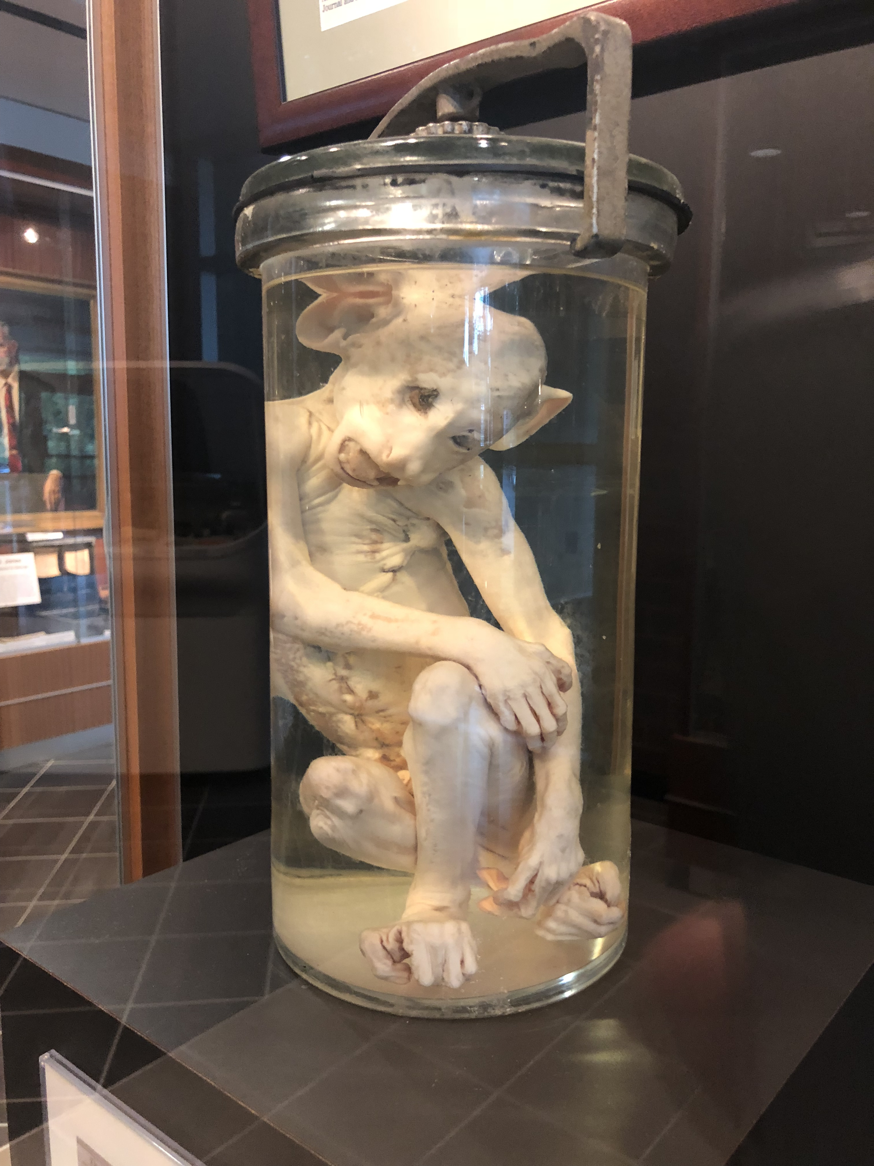 Closeup of the Martian Monkey in a jar. This hoax of 1953 was debunked in part by the forensic work of the Georgia Bureau of Investigation. In the lobby of the GBI's Herman Jones Memorial Forensic Science Complex building, there is a small museum devoted to forensic investigation, and the monkey is one of the displays.